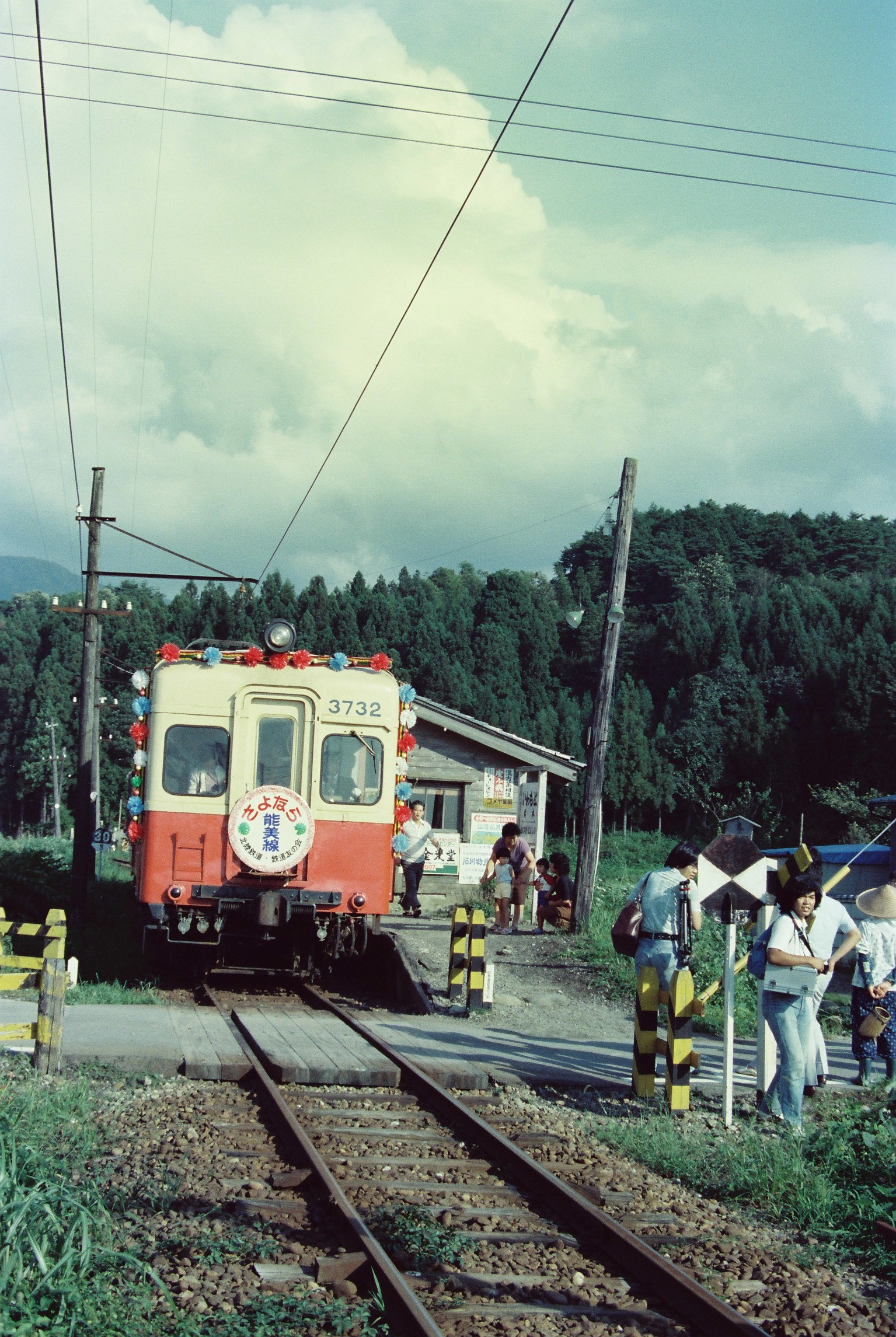 北陸鉄道能美線